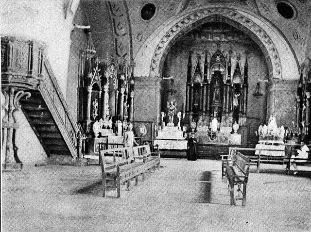 Archival photo of the San Diego de Alcala Cathedral in Gumaca showing the orignal retablo done in Neo-Gothic design, and the trompe-l'oeil ceiling paintings.